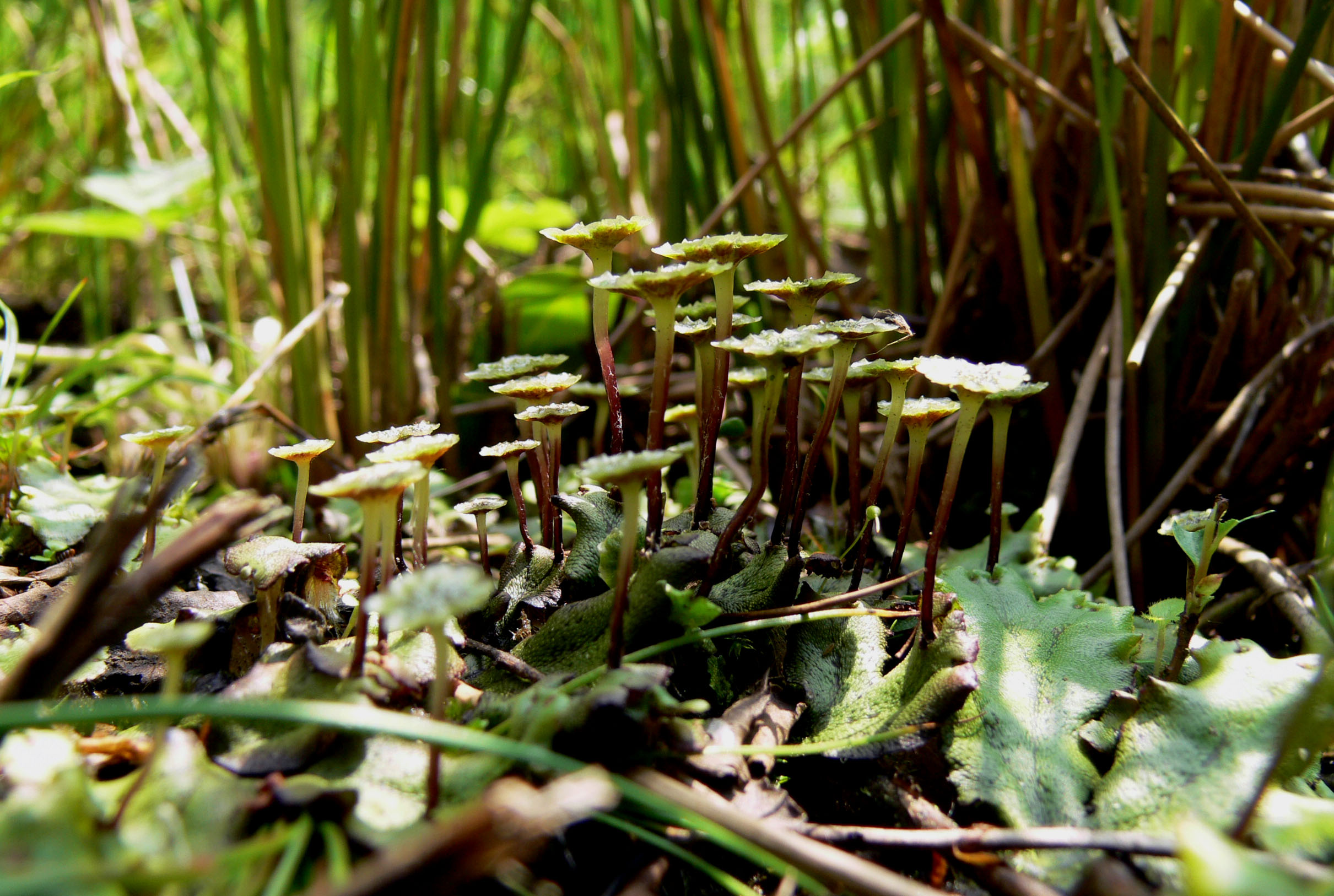 Male Marchantia plants at the edge of a pond